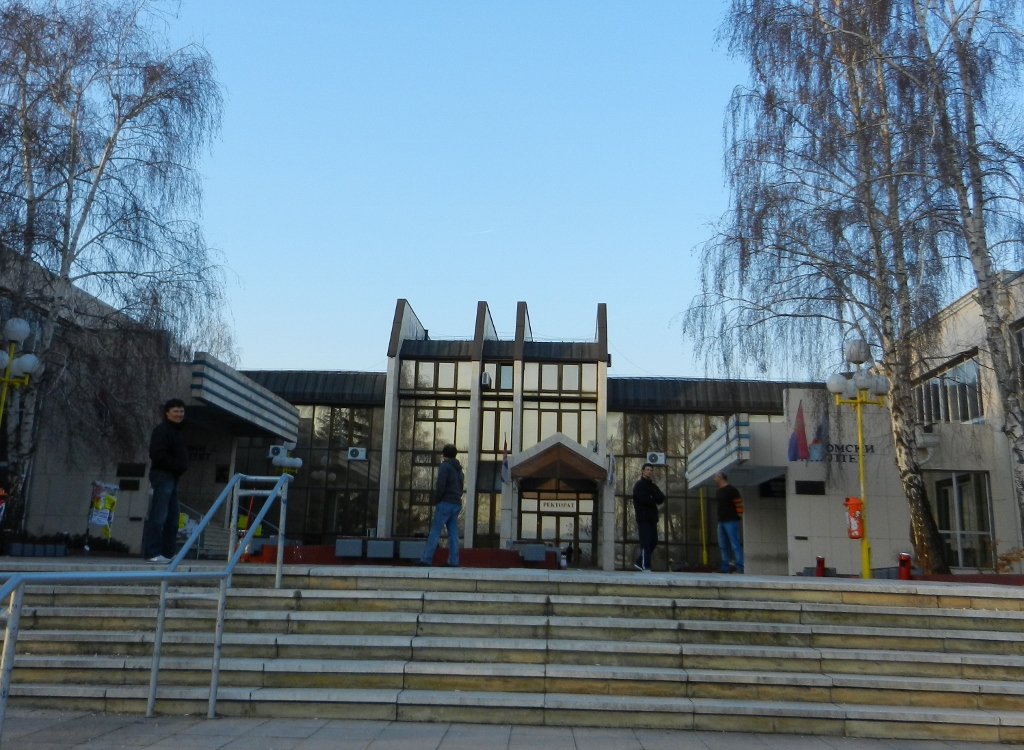 Rectorate University of Kragujevac, author: Veroljub Atanasijevic Architect 1994